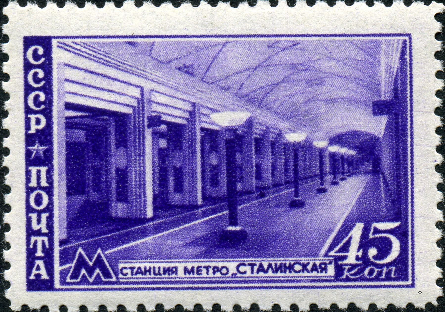 Stamp of the Soviet Union, Semyonovskaya (former Stalinskaya, Moscow Metro station), 1947, CPA 1150.